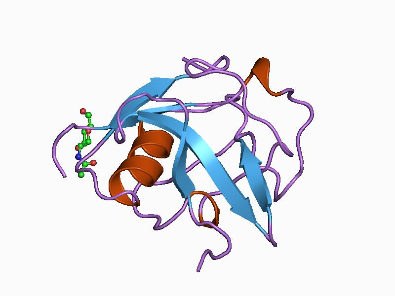 Cartoon representation of the molecular structure of protein registered with 1by2 code.